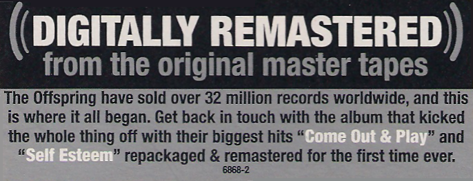 The sticker found on the 2008 remaster edition of the album "Smash" by The Offspring.